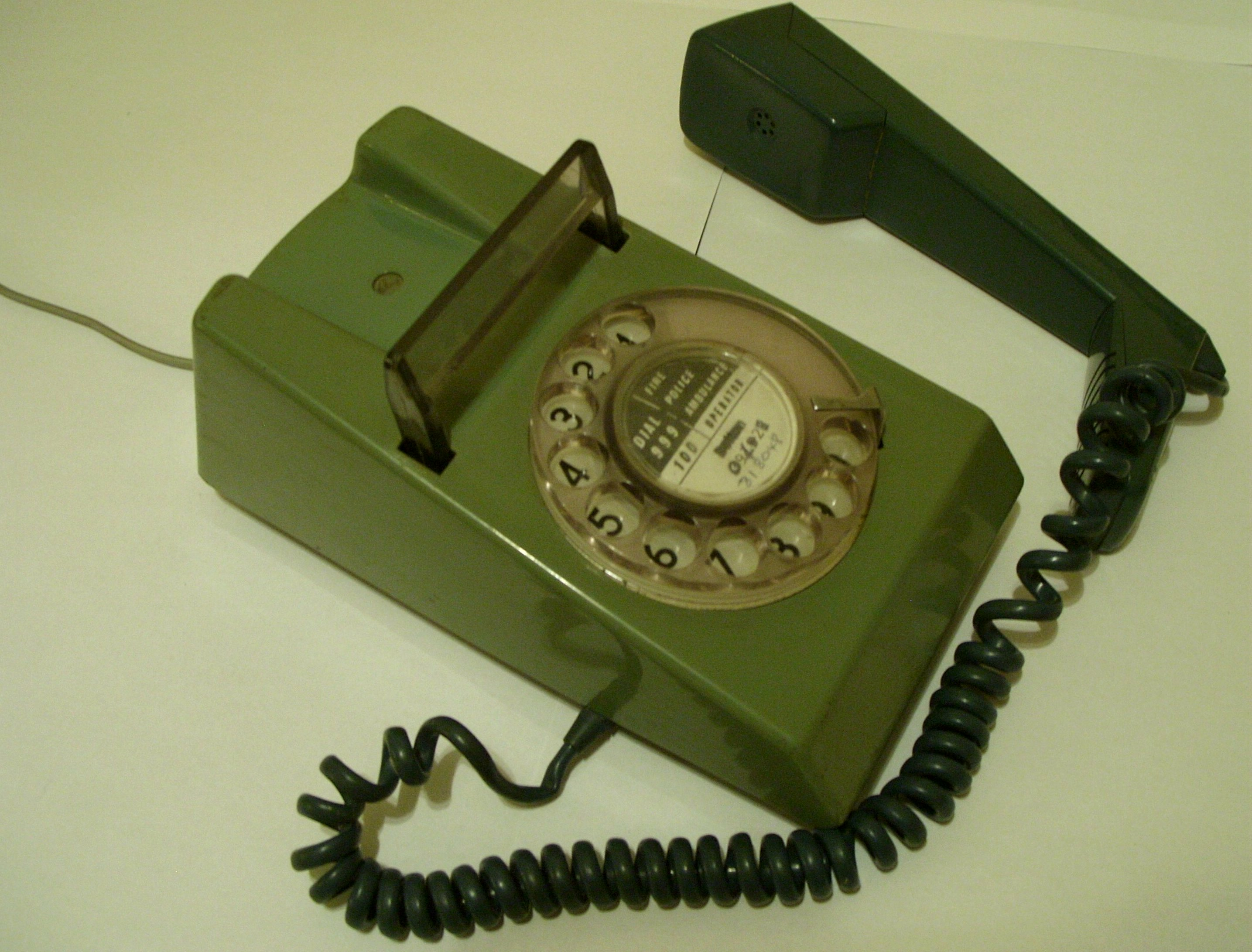 GPO Telephone 712 Off Hook